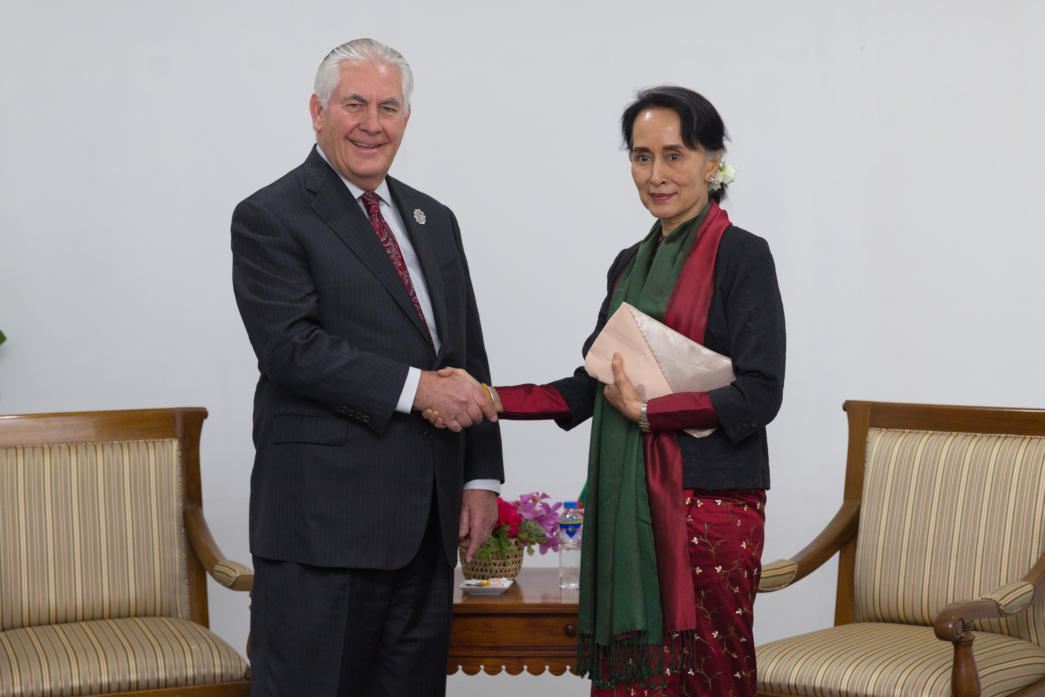 U.S. Secretary of State Rex Tillerson meets with Burma State Counsellor Aung San Suu Kyi on the margins of ASEAN Summit in Manila, Philippines, on November 14, 2017. [State Department photo/ Public Domain]